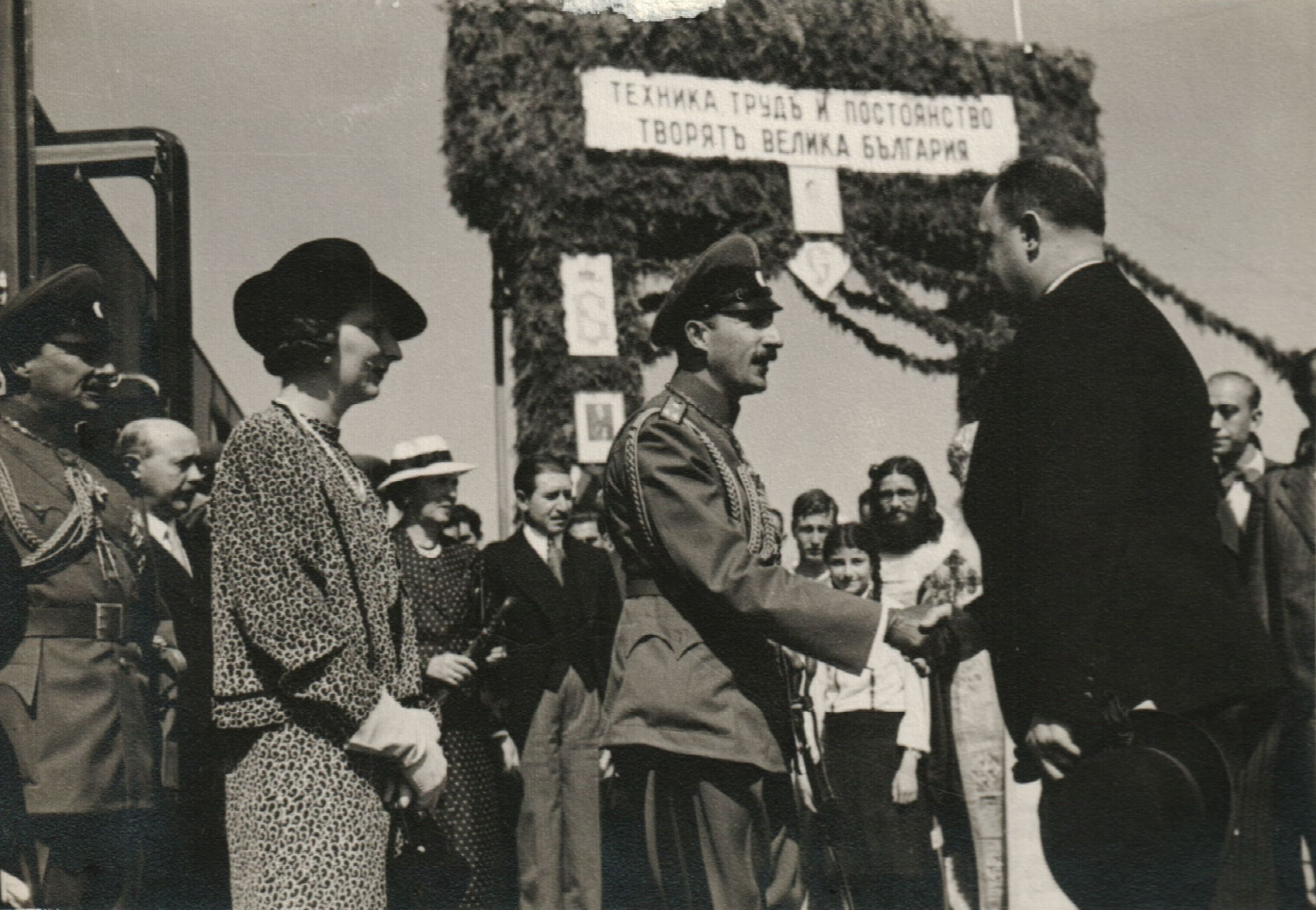 Burgas-Pomorie railway line, Bulgaria